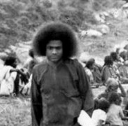 Sathya Sai Baba is feeding the poor in 1948